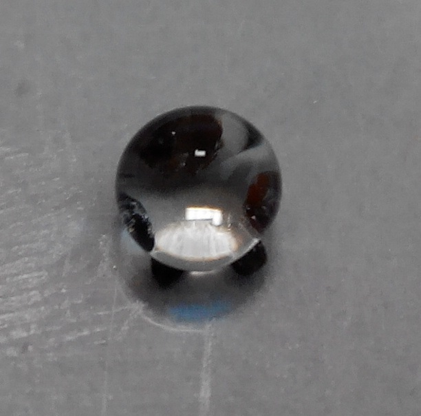 The droplet of water holds a spherical form standing on only 5 grains of hydrophobic sand, which was synthesized in our laboratory. The hydrophobic sand is a sand, which carries the water-repellent properties. The droplet of water is repelled by only 5 grains of such sand and doesn't wet it. Additionally, the surface tension helps to droplet held a spherical form.